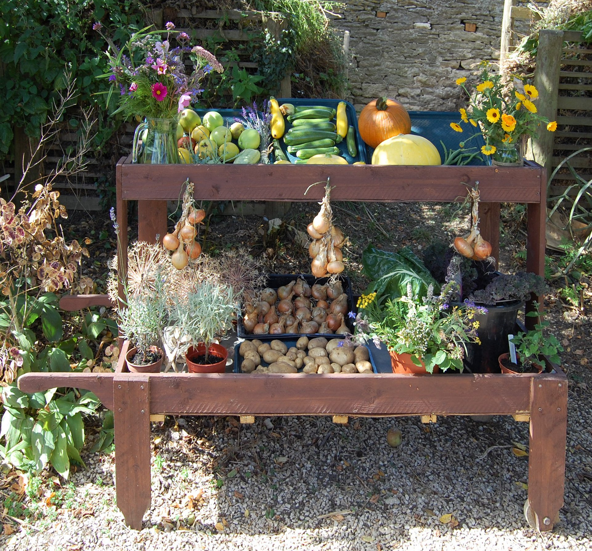 This shows a display of produce put together by volunteers in preparation for the 2013 Wychwood Fair, at which the Cogges Manor Farm project had a stand.